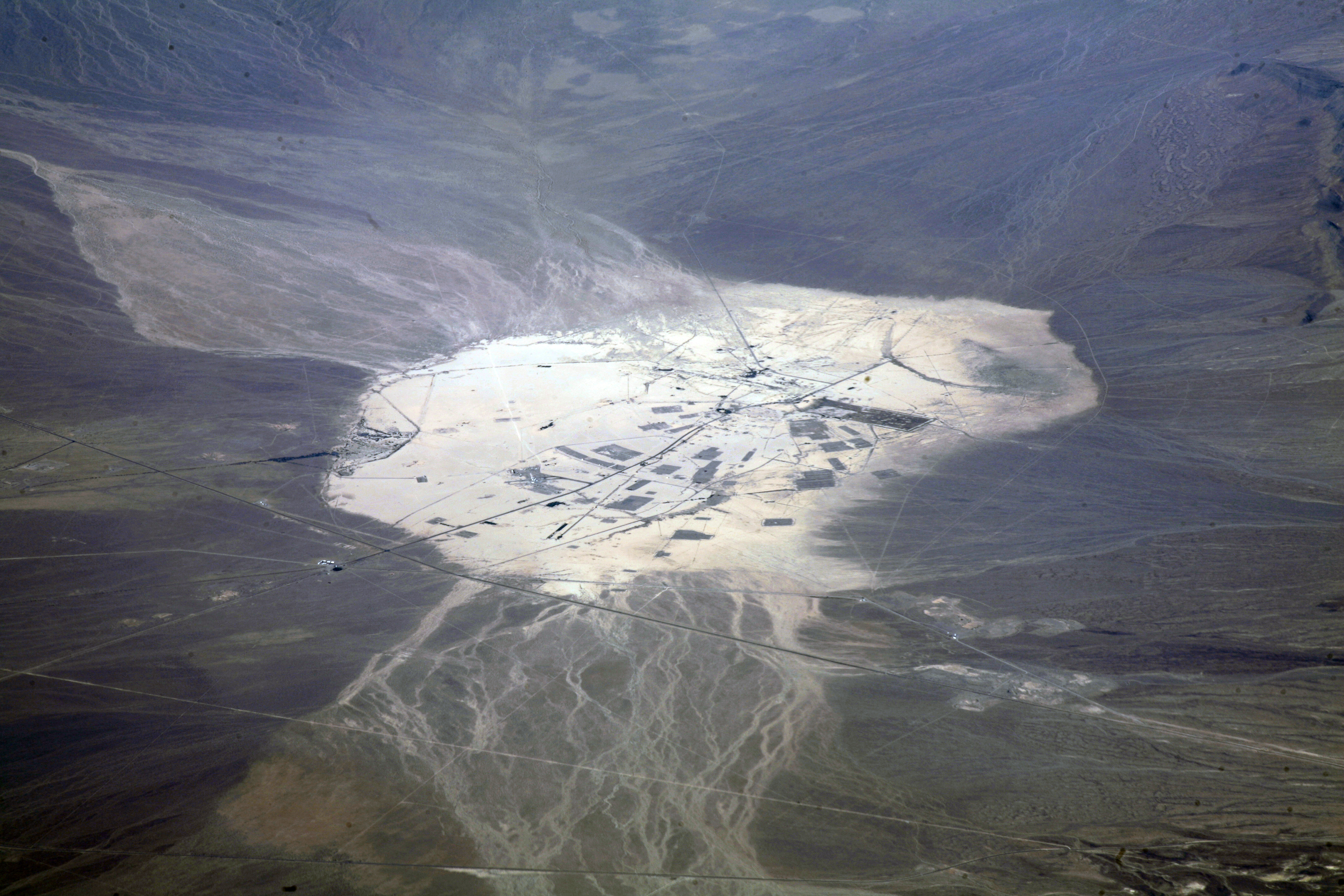 Frenchman Lake, on Frenchman Flat, with its "doom town" of buildings, roads and railroad bridges. The first nuclear bomb tests at Area 5 in the Nevada Test Site were conducted here. So were many more, mostly in the early 1950s. Here is a video of Doom Town being blown up. On the far side is the Desert National Wildlife Range. A total of 19 tests were done in Area 5. Most were within the area shown.